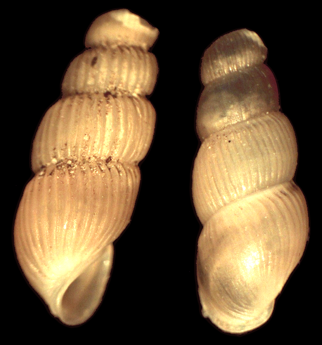 Truncatella scalarina J. C. Cox, 1867, a sea snail from the family Truncatellidae; South Australia